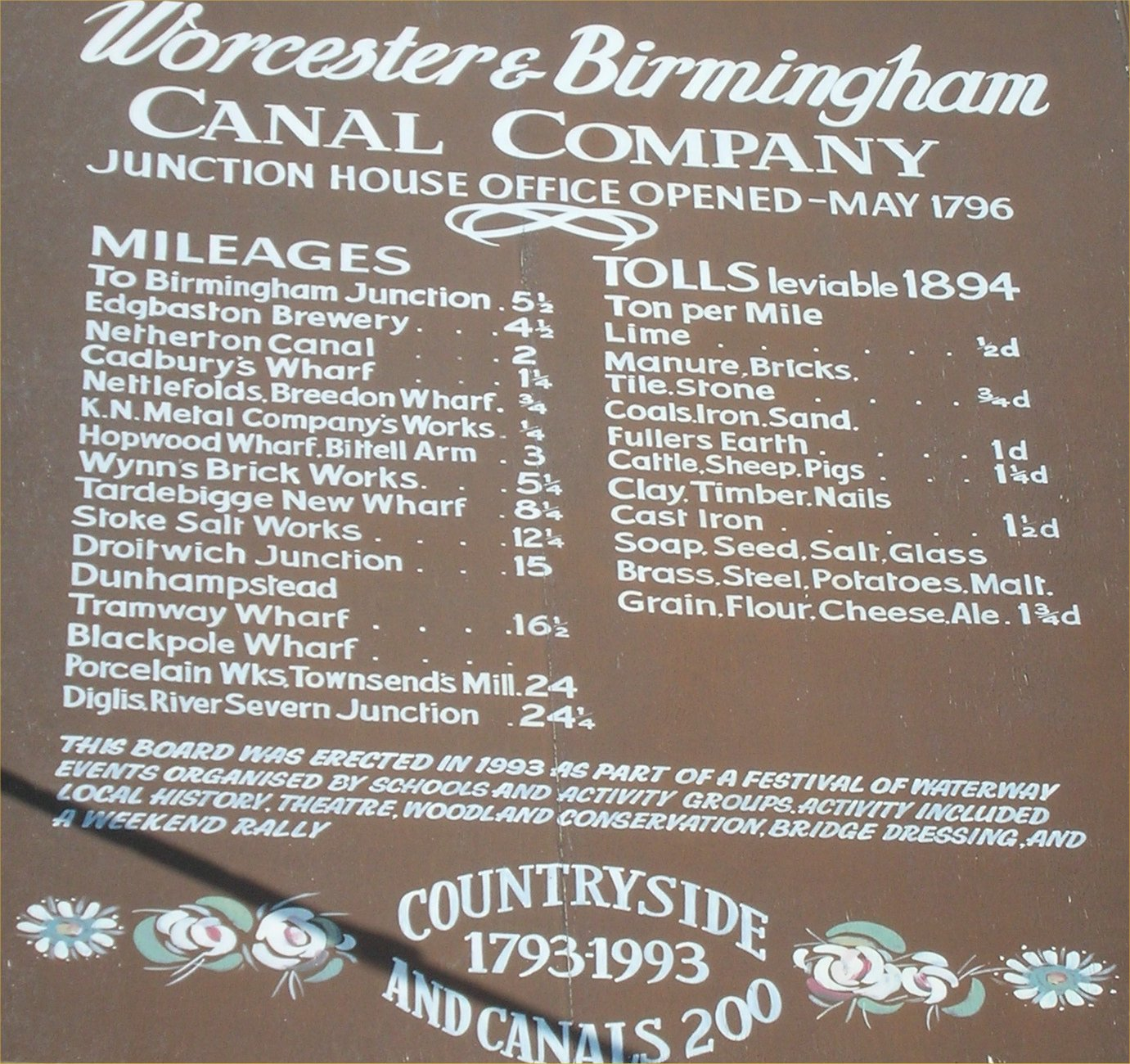 A reproduction of the scale of toll fees on the wall of the Worcester and Birmingham toll house at Kings Norton Junction near Kings Norton, Birmingham, England, where the Stratford-upon-Avon Canal terminates and meets the Worcester and Birmingham Canal. Photographed by me 11 June 2007. Oosoom